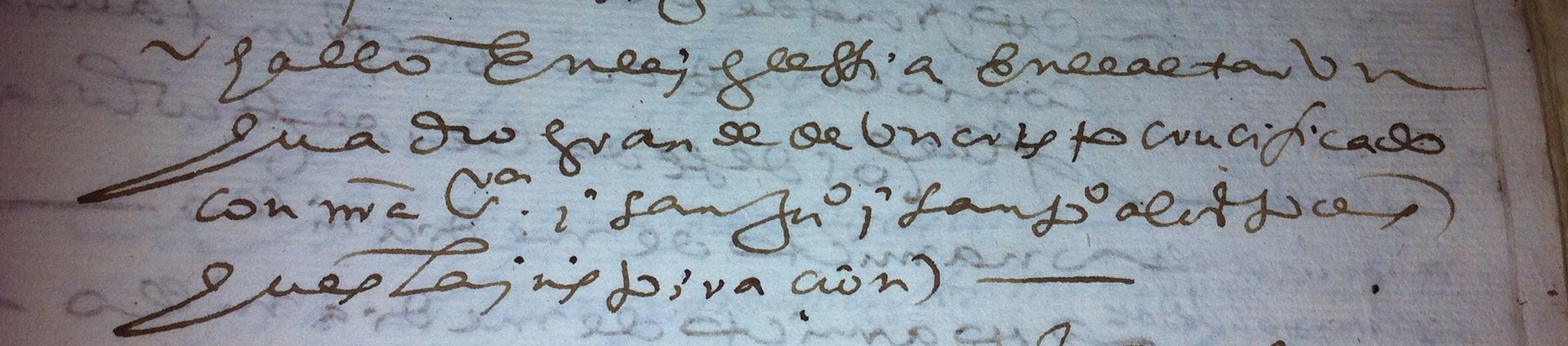 Inventario 1620